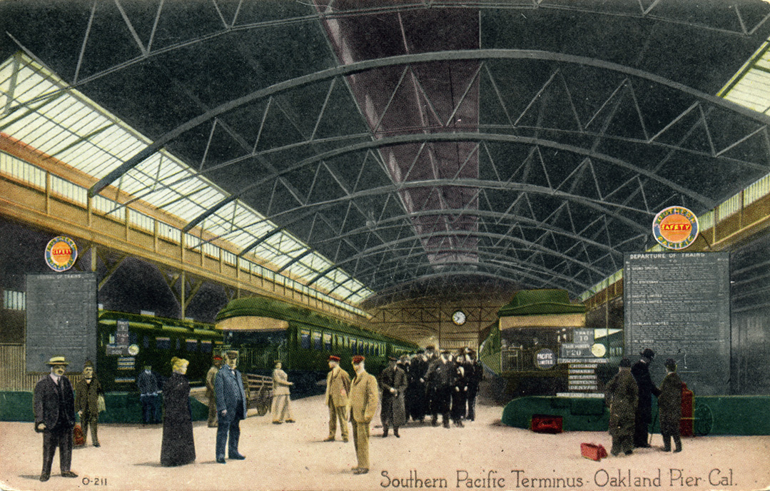 Early divided back postcard of the interior of Oakland Long Wharf, with the Pacific Limited at right